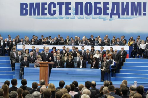 MOSCOW. At the 9th United Russia Party Congress.